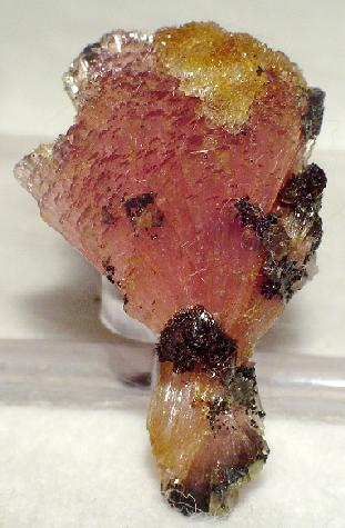 Inesite, Hubeite Locality: Fengjiashan Mine (Daye Copper mine), Edong Mining District, Daye County, Huangshi Prefecture, Hubei Province, China (Locality at ) A gorgeous spray of highly lustrous and translucent pink inesite crystals that looks just like a floral bouquet. Hubeite crystals are scattered about and one cluster "ties" the inesite bundle together. Beautiful and artistic! 2.7 x 1.8 x 1.0 cm